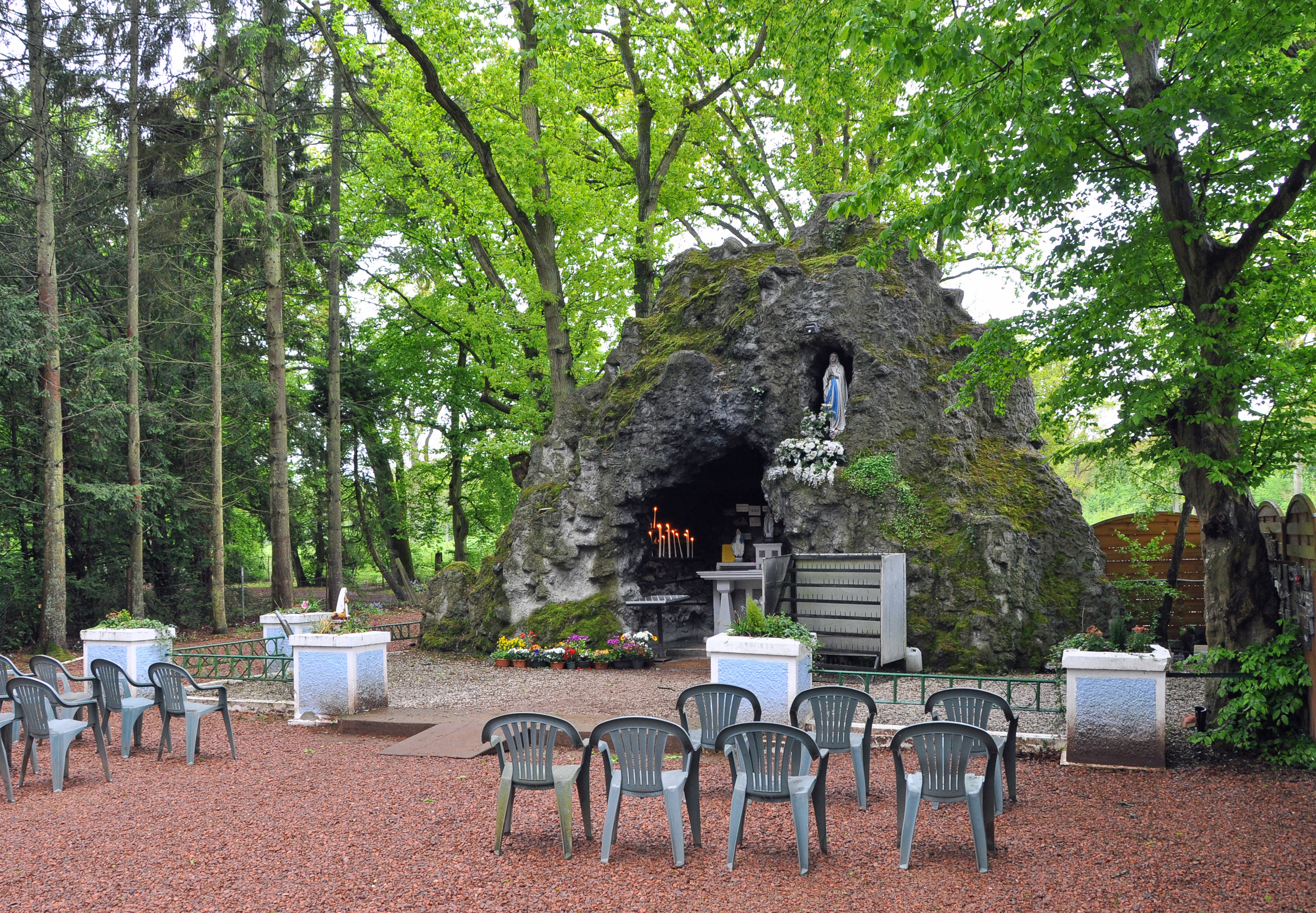 Clairmarais (département du Pas-de-Calais, France): Lourdes Grotto